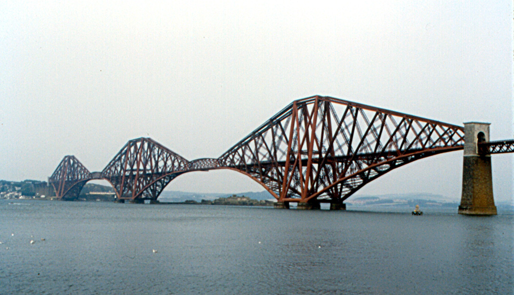 The Forth Bridge (Forth Railway Bridge) was built in 1893-1890. The bridge is 1½ miles (2½ km long), and 150 ft (46 m) above the Firth of Forth. The Forth Bridge is one of the small class of structures that are recognized by their outline (Eiffel Tower, Pyramids, etc.) The bridge was conspicuously overdesigned, in the aftermath of the collapse of the Tay Bridge with a train in 1879, with 75 lives lost. I took this photo from South Queensferry. No prizes for guessing the name of the town at the other end of the bridge.